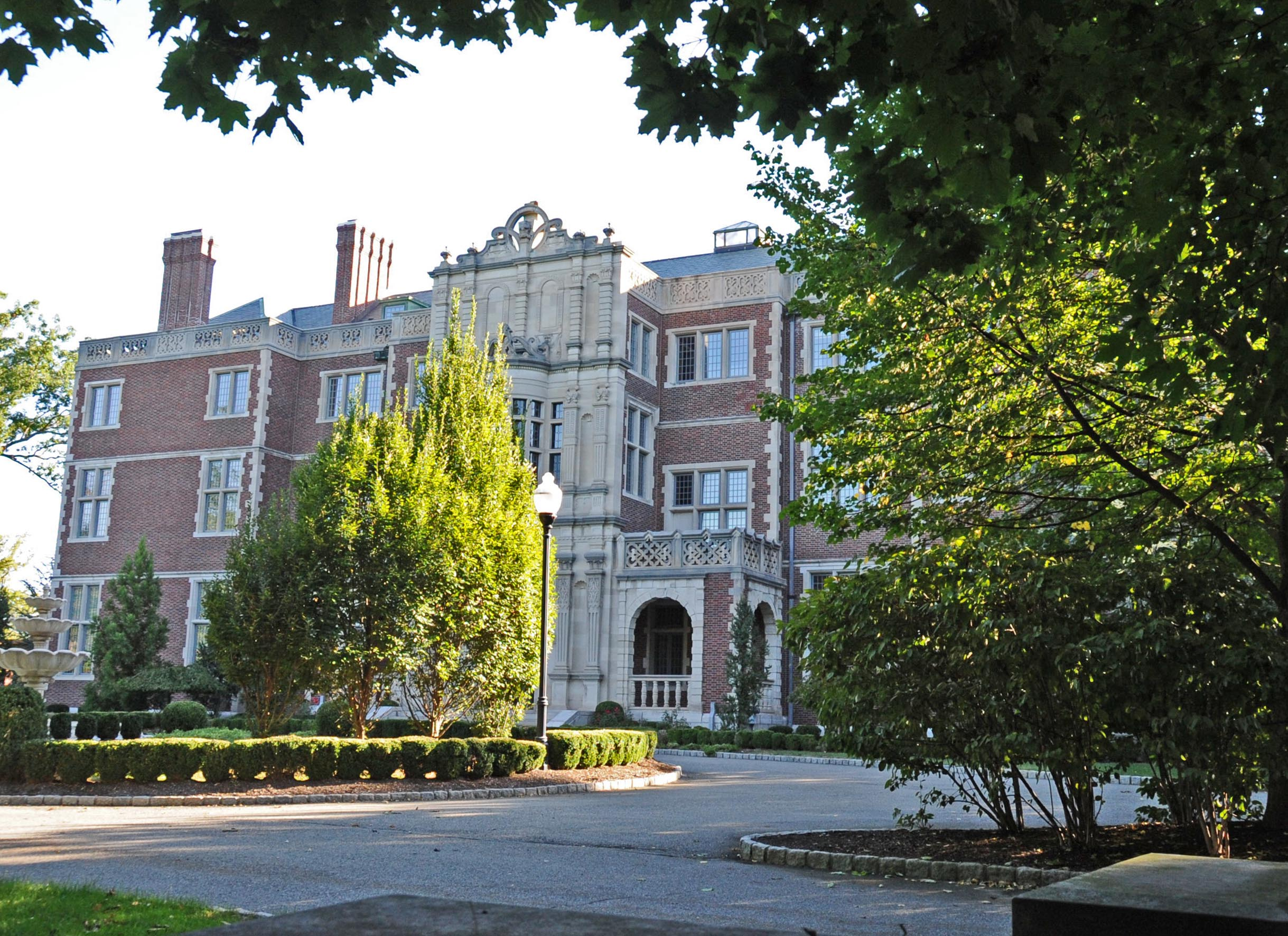 Built in 1901 for George Crocker, son of railroad magnate Charles Crocker. After Crocker died the estate passed to Emerson McMillin, a gas light magnate in Ohio. McMillin was a supporter of the League of Nations, and World Court meetings were held here. After his death it went to the Catholic Diocese of Newark until 1976 when it was sold to a private person.